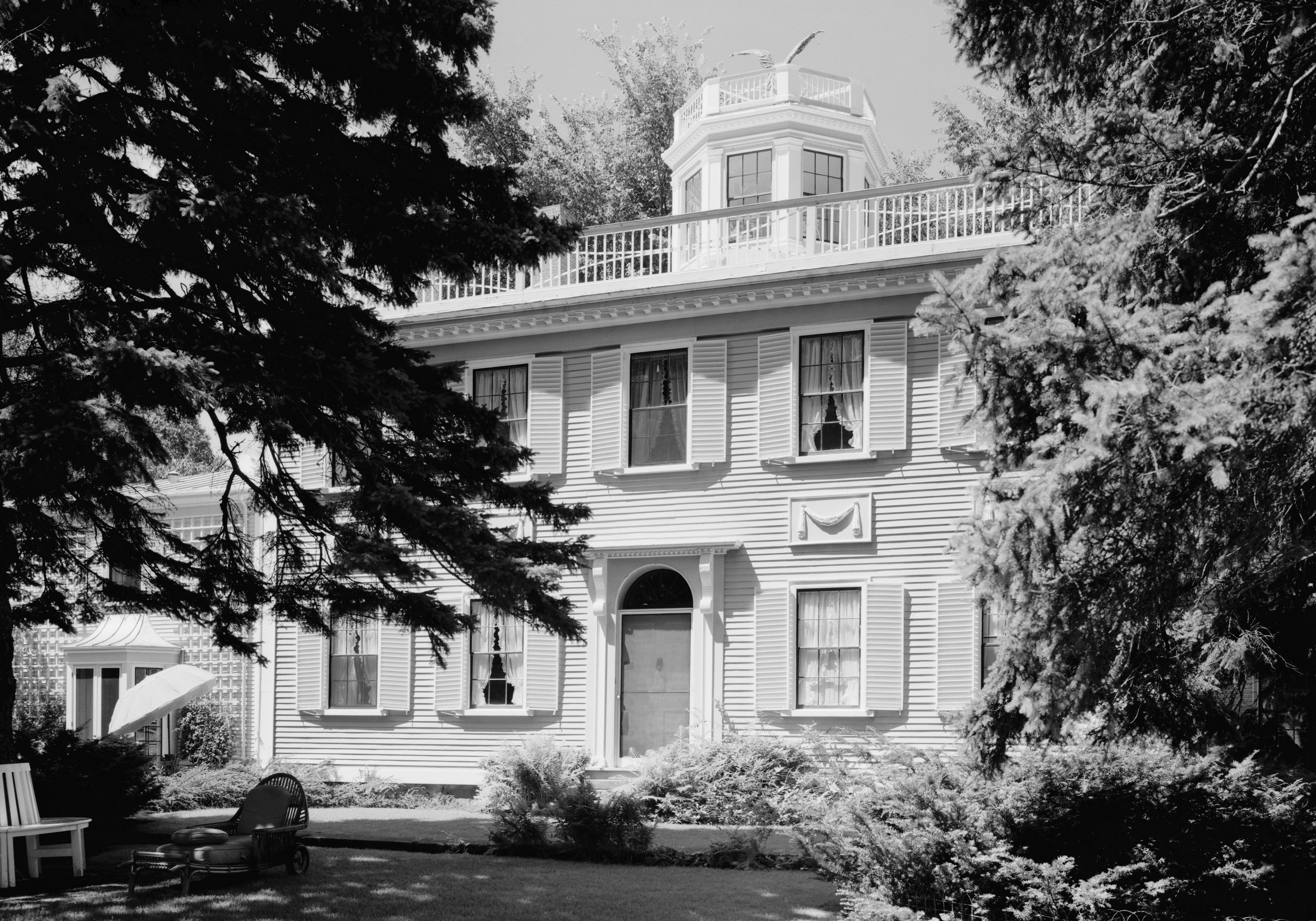 July 1960 East elevation photo by Cervin Robinson for the Historic American Buildings Survey of the McCobb Spite House at Deadman's Point in Rockport identified as HABS ME,7-ROCPO.V,1-1 and obtained from LOC Photo Display using the Highest resolution image (TIFF - 17551K bytes) image.